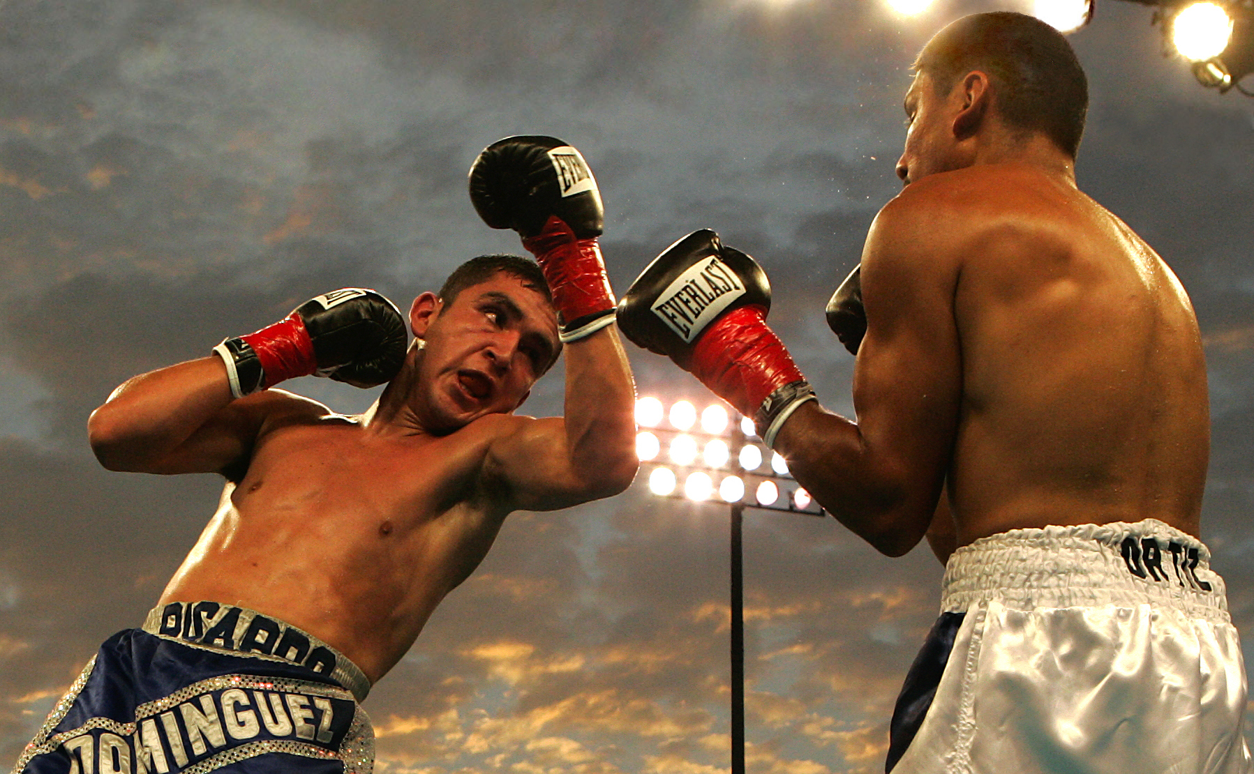 Ricardo Dominguez (left) rallied late to win a decision over Oregon’s Rafael Ortiz in the night’s toughest fight.